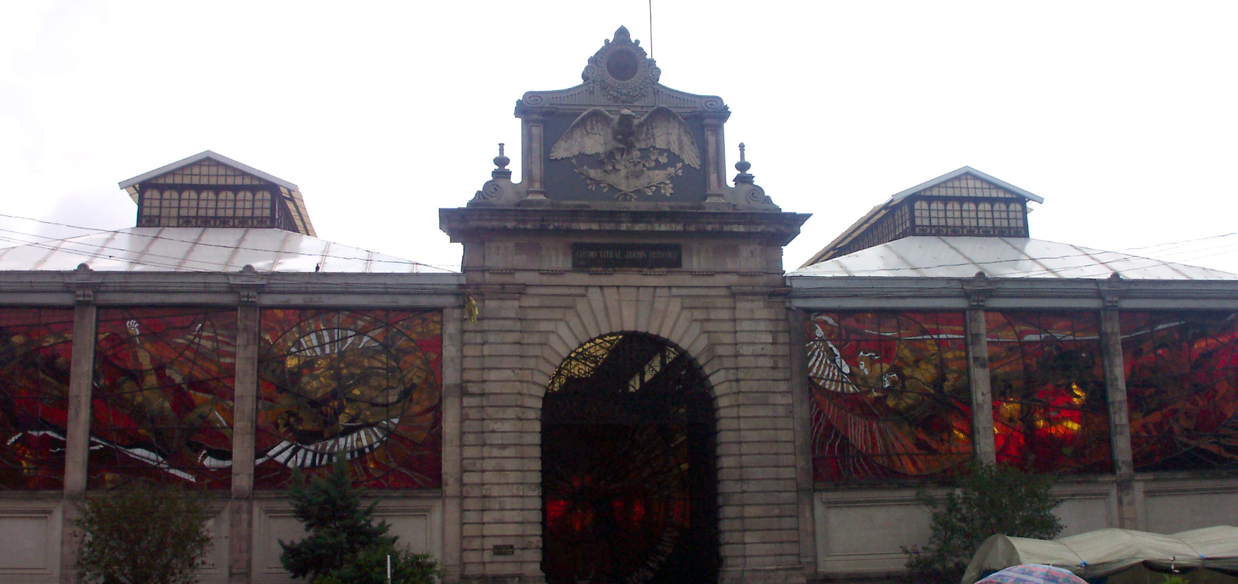 Jardin Botanico y Cosmovitral. Foto Propia Salvador Barrera Rodriguez. Agosto 2003. (Author's own work)